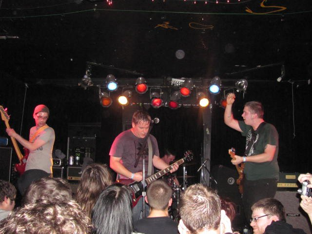 Banner Pilot at the Beat Kitchen in Chicago, IL